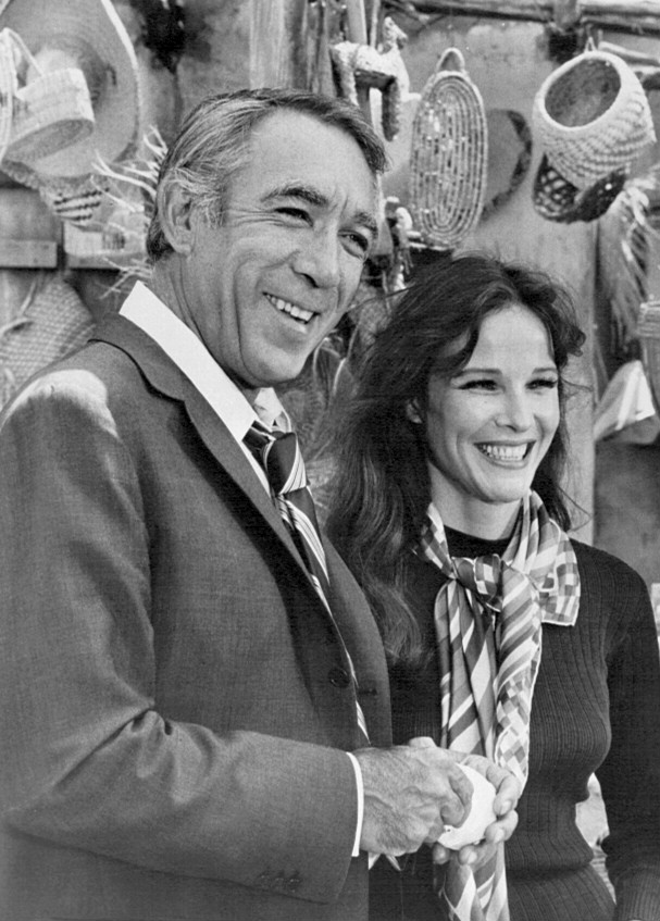 Photo of Anthony Quinn and Janice Rule from the television program The Man and the City.